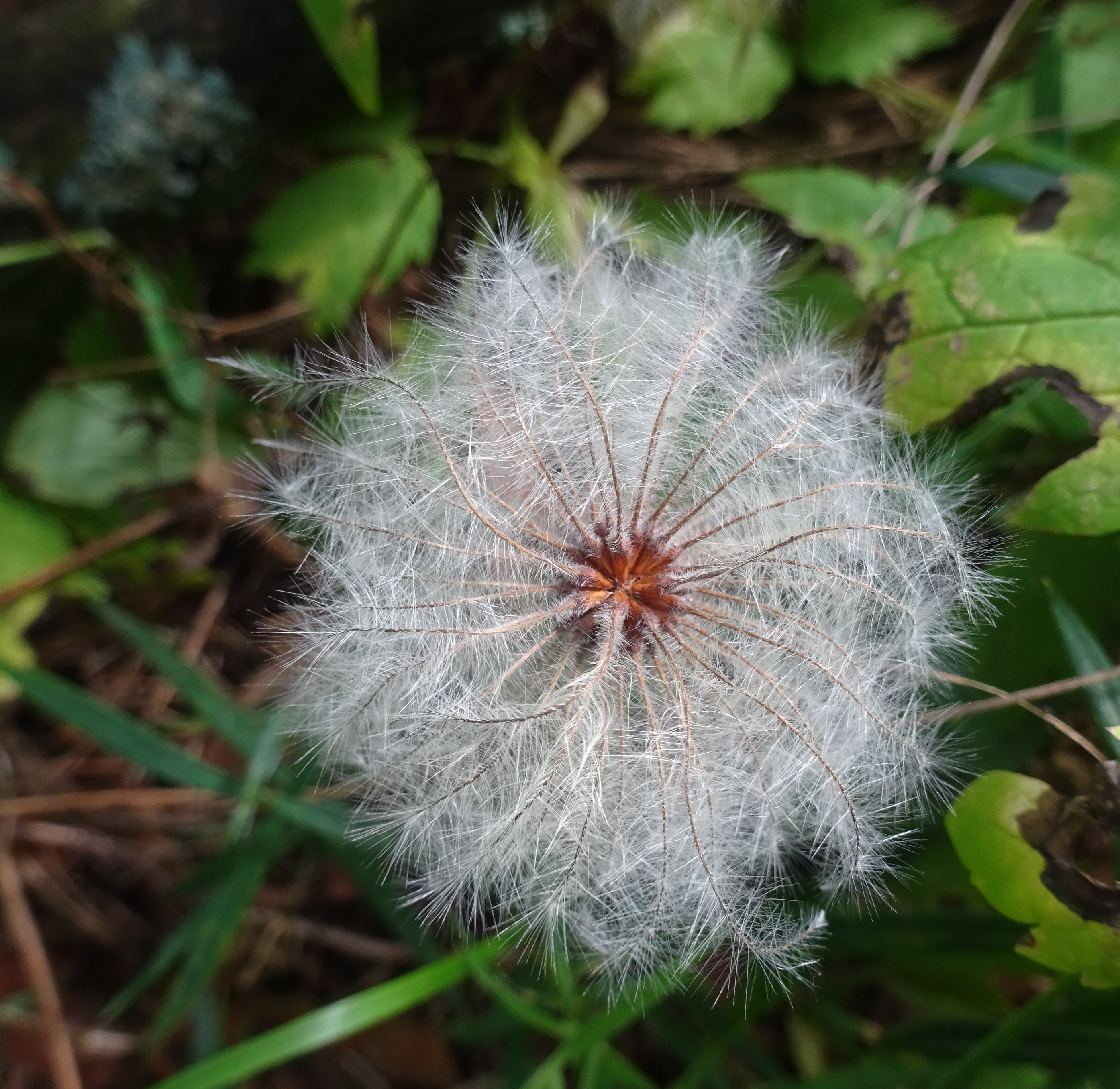 Atragene sibirica in Perm